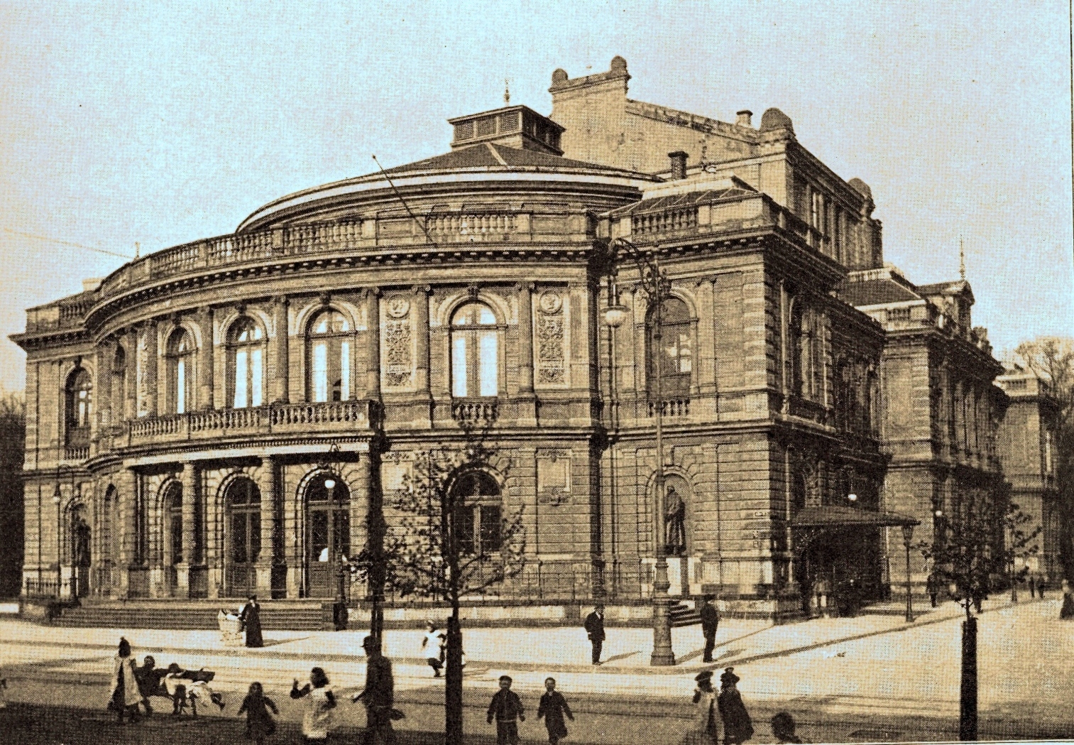 Düsseldorf, Stadttheater und späteres Opernhaus an der Alleenstraße, Außenansicht, erbaut von Giese von 1873 bis 1875, farbiger.jpg